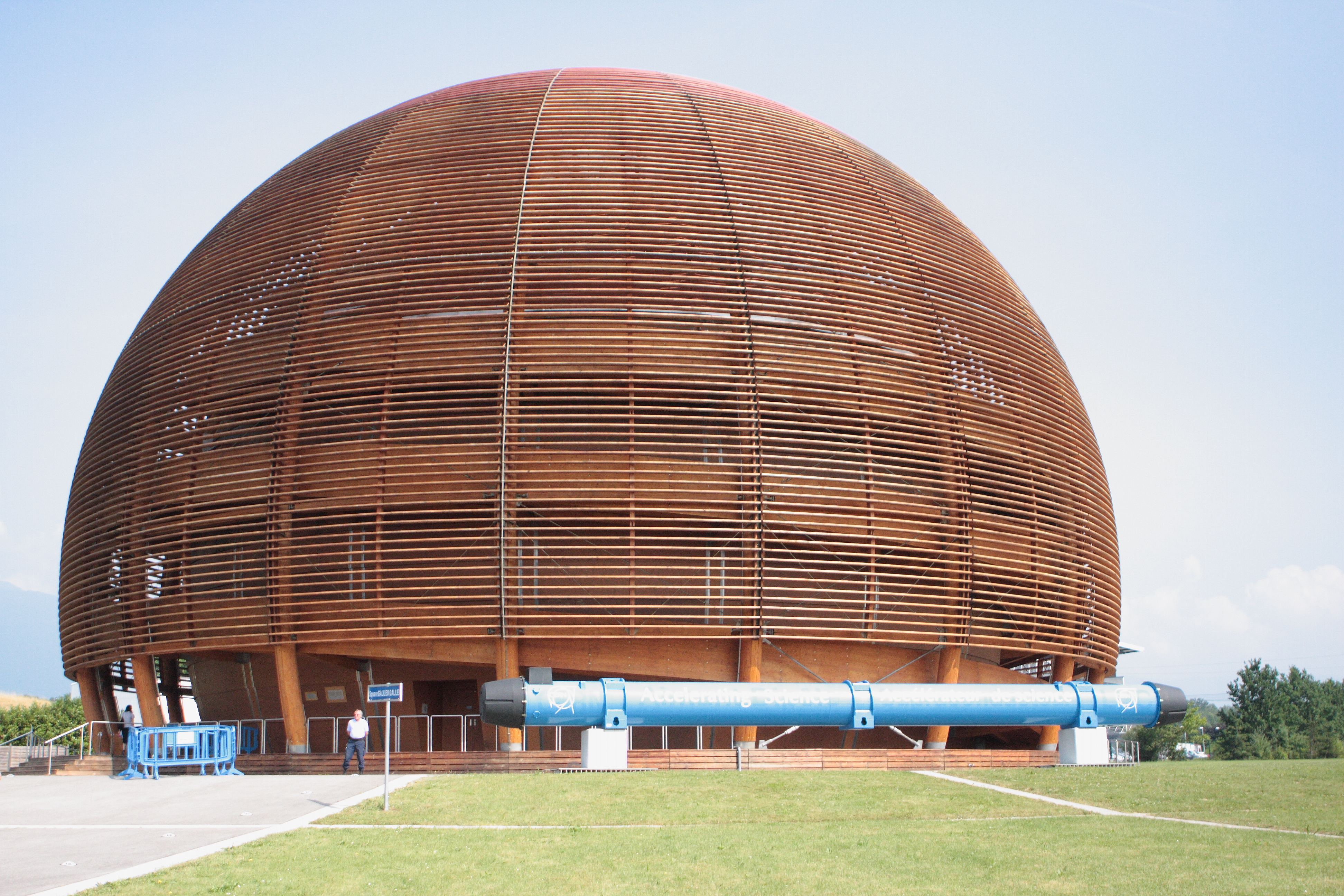 CERN Globe of Science and Innovation